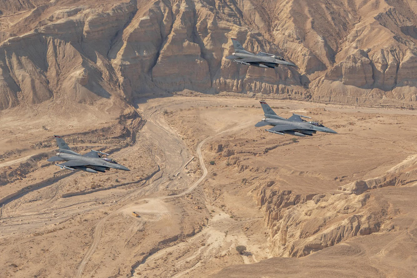 U.S. Air Force F-16 Fighting Falcons assigned to the 480th Expeditionary Fighter Squadron, fly over the desert during exercise Blue Flag 2019 at Uvda Air Base, Israel, November 15, 2019. Blue Flag provided members of the 480th EFS the opportunity to train with other partner nations in an different environment. (U.S. Air Force photo by Airman 1st Class Kyle Cope).